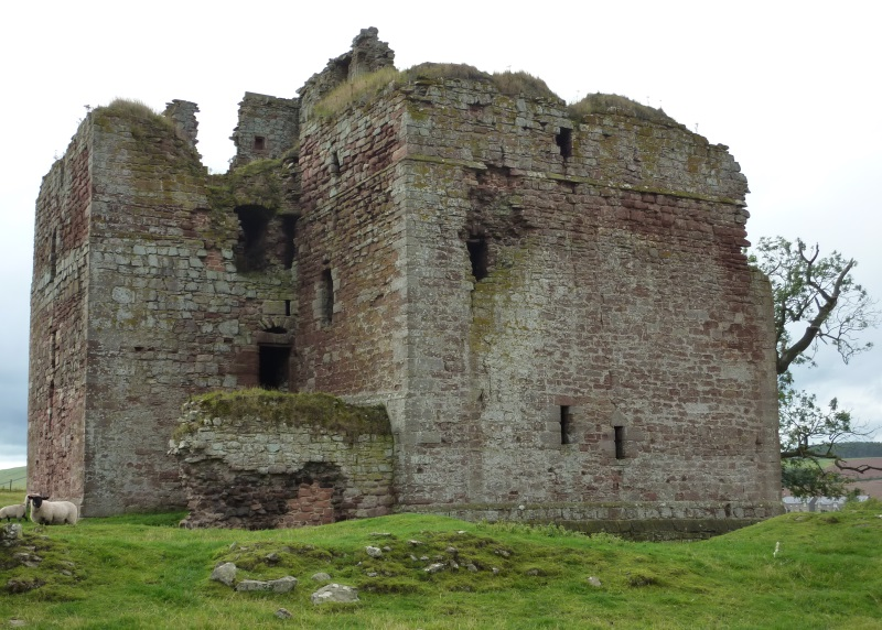 Cessford Castle, Scottish Borders, Scotland.